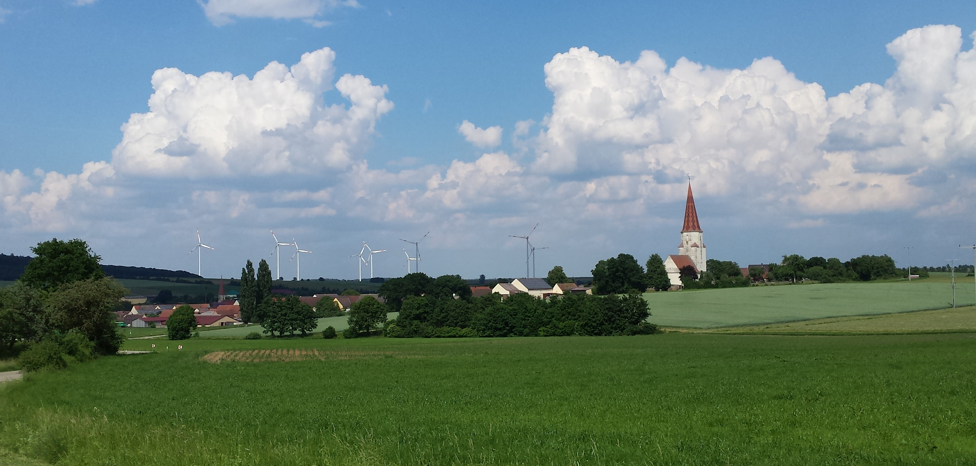 Obermögersheim